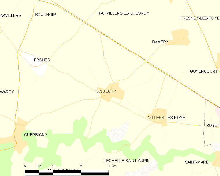 Map of French municipality Andechy